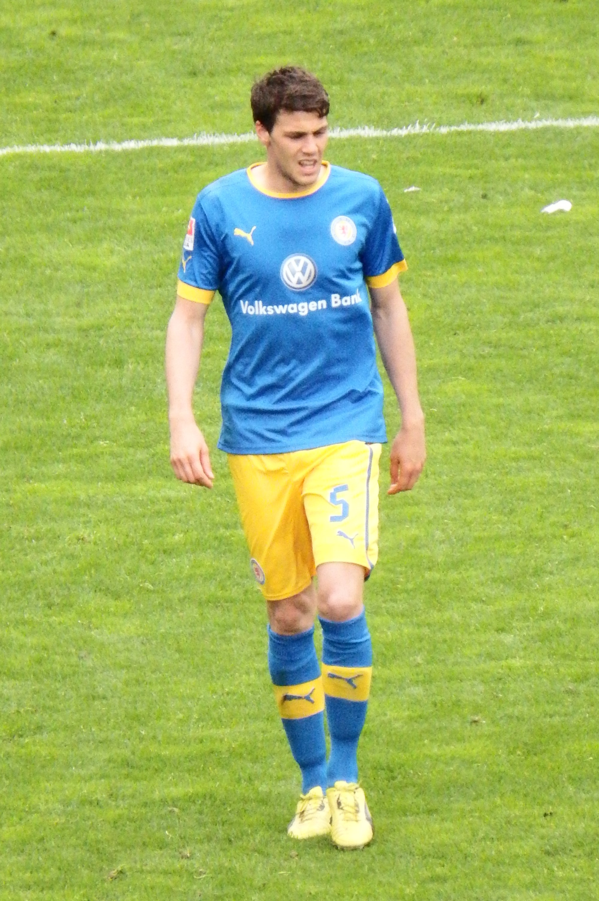 Benjamin Kessel as Player from Eintracht Braunschweig